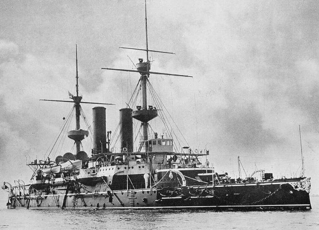 Photograph of British battleship HMS Hood.